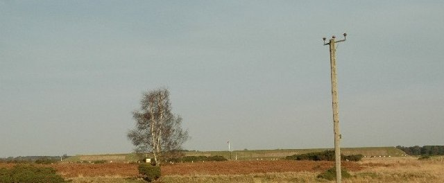 Strensall Common. This is a military training area which was established in the late 19th century for volunteer's camps, etc. The earth bank across the picture is the target end of the rifle ranges. The extensive area beyond the earth bank is managed as a nature reserve. Beware when the red flags are flying, they mean what they say!